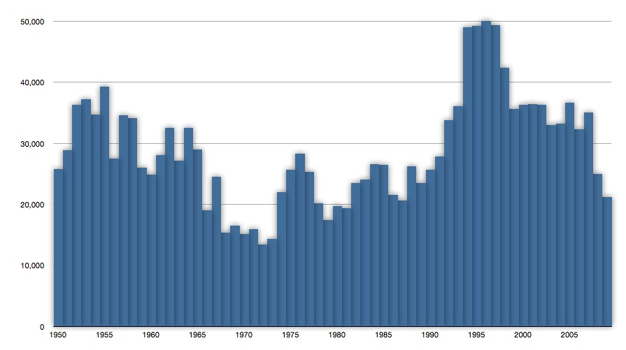 Fisheries recorded capture of Thunnus thynnus from 1950 to 2009. Data source FAO fisheries